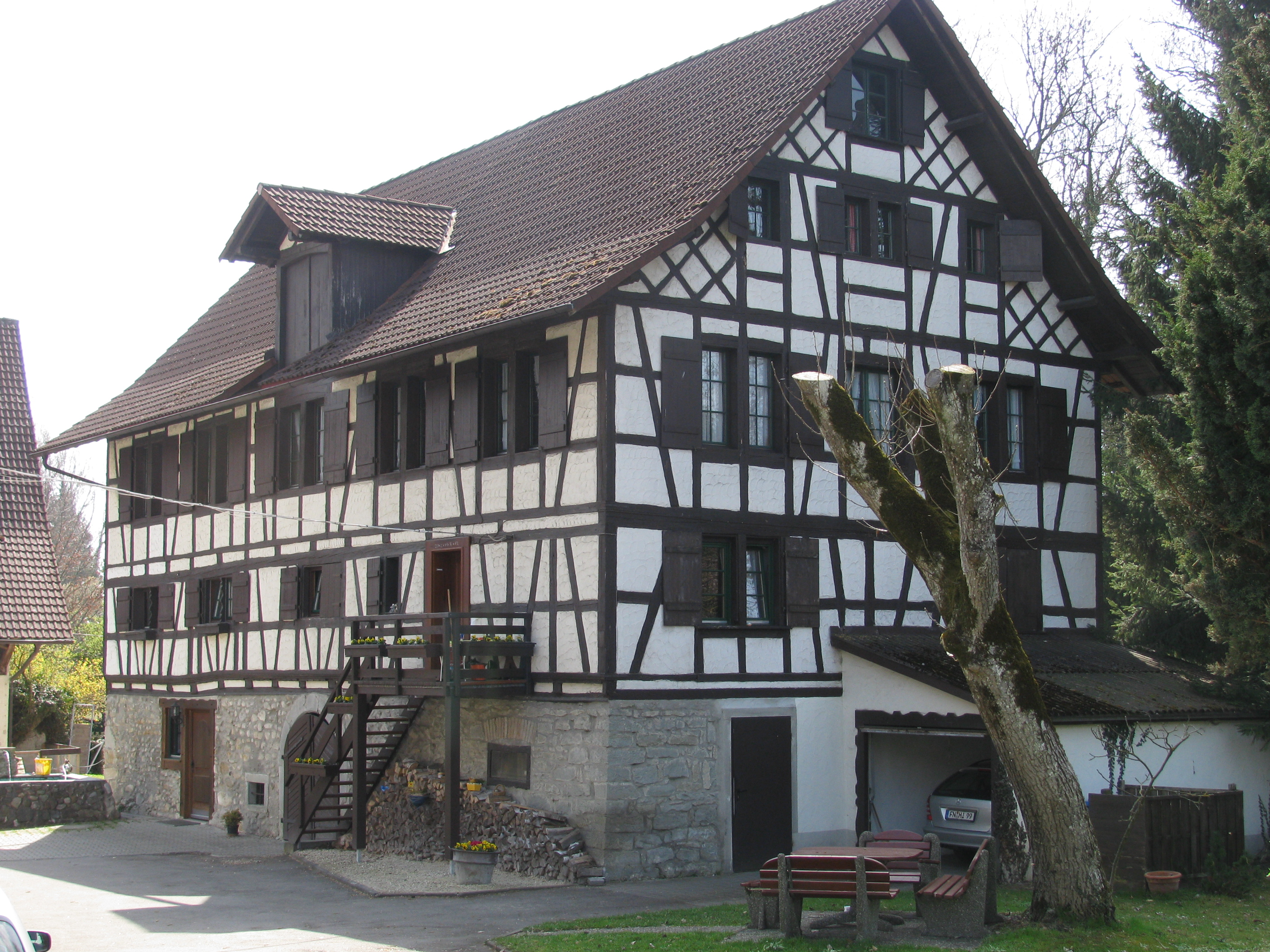 Germany - Baden-Württemberg - Bodenseekreis - Friedrichshafen - Ittenhausen - 'Rotachstreet 10': farmhouse